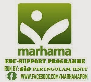 Marhama Edu-support Programme Peringolam Logo